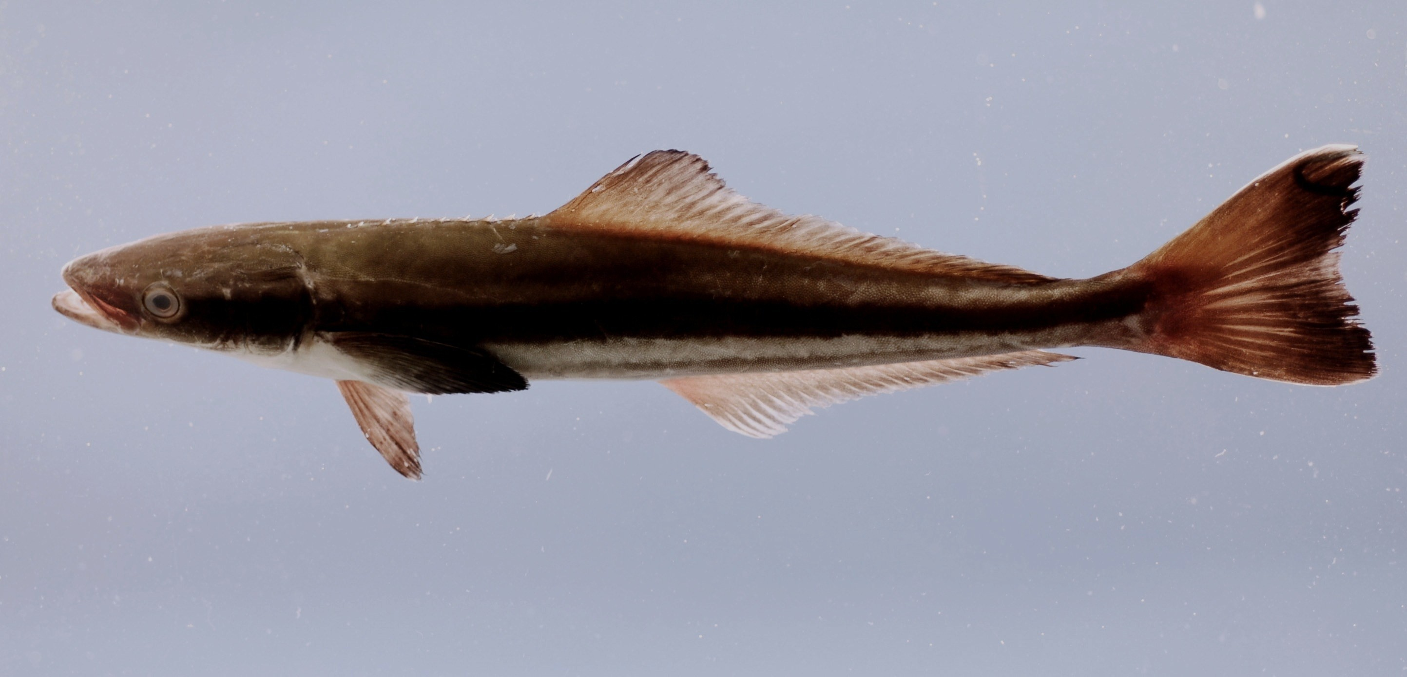 Cobia ( Rachycentron canadum ). Gulf of Mexico.